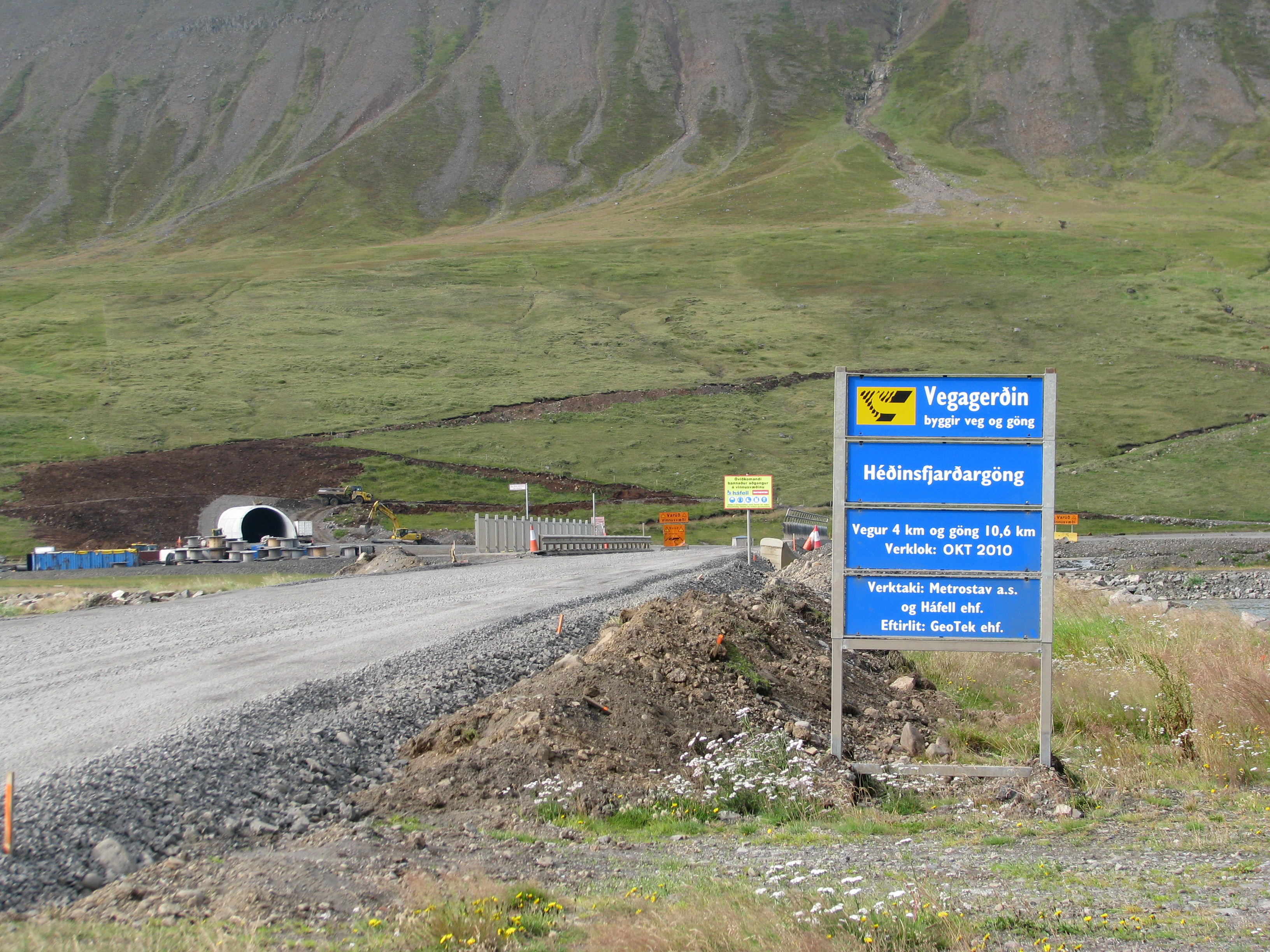 The entrance of the Hédinsfjardargöng under construction at Ólafsfjördur, a town on the north of Iceland.